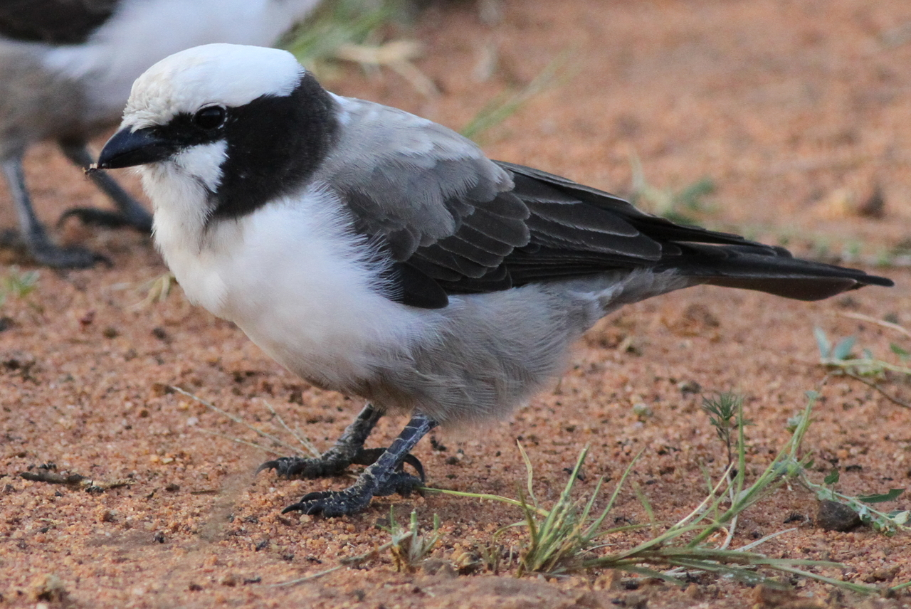 Southern White-crowned Shrike, Eurocephalus anguitimens, gleaning ants from the early morning soil at Marakele National Park, South Africa